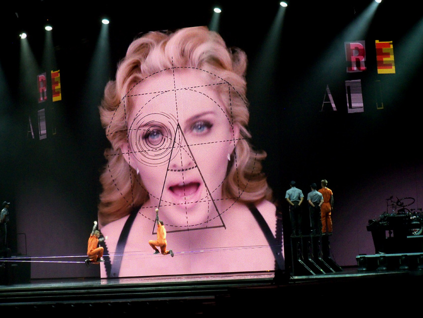 Madonna's MDNA Tour at Staples Center